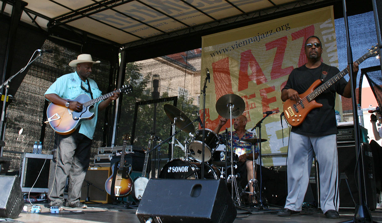 The Taj Mahal Trio (Taj Mahal - voc., git. , banjo, keys; Bill Rich - bass; Kester Smith - drums) at the Museumsquartier in Vienna (Jazz-Fest Wien)